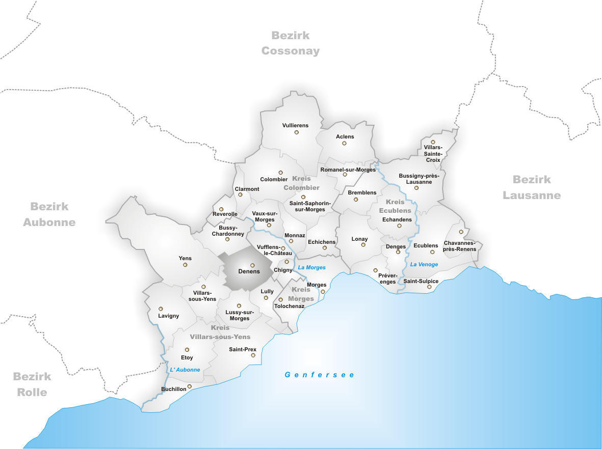 Municipality Denens